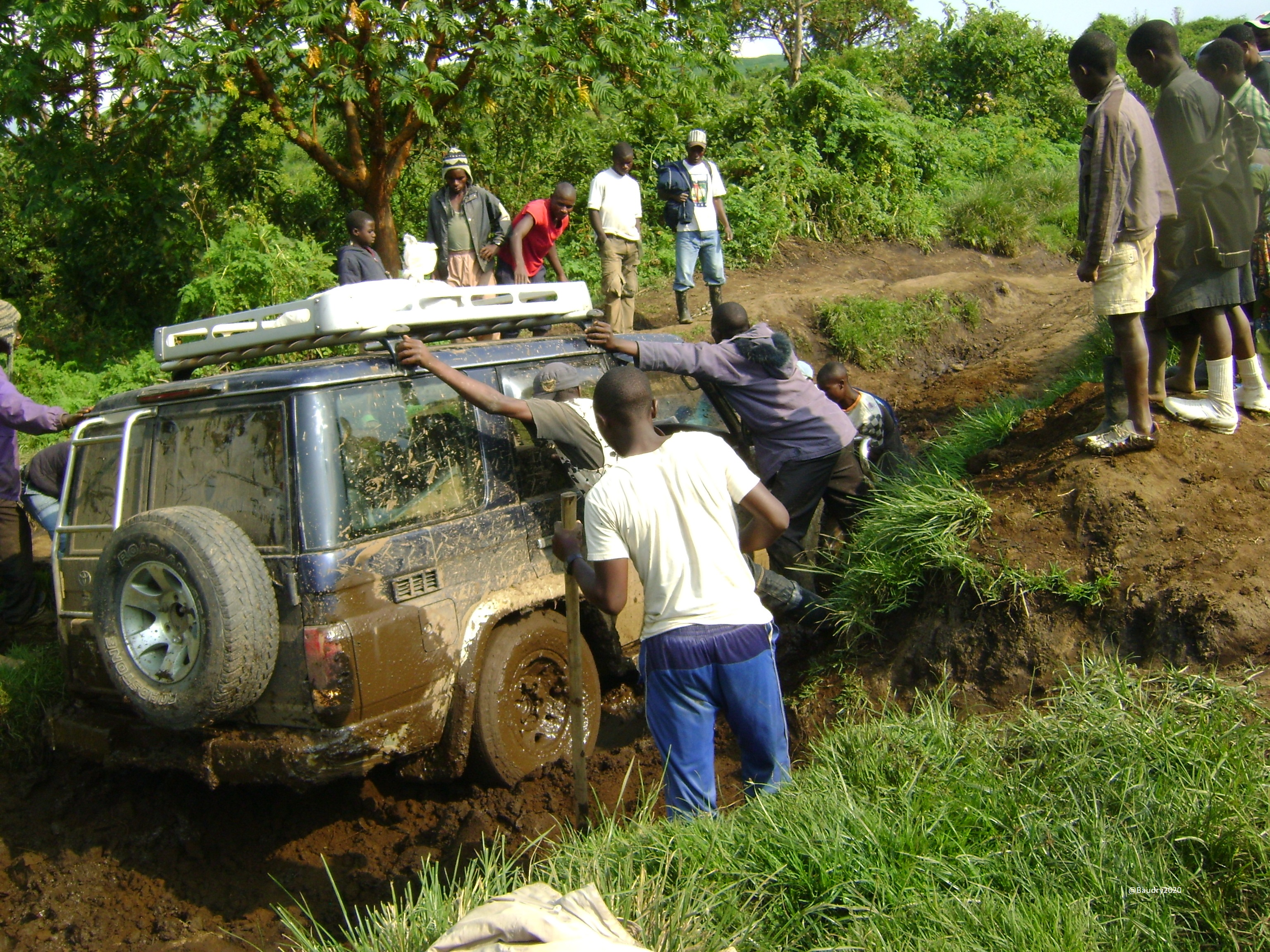 This is an image with the theme "Africa on the Move or Transport" from: Democratic Republic of the Congo